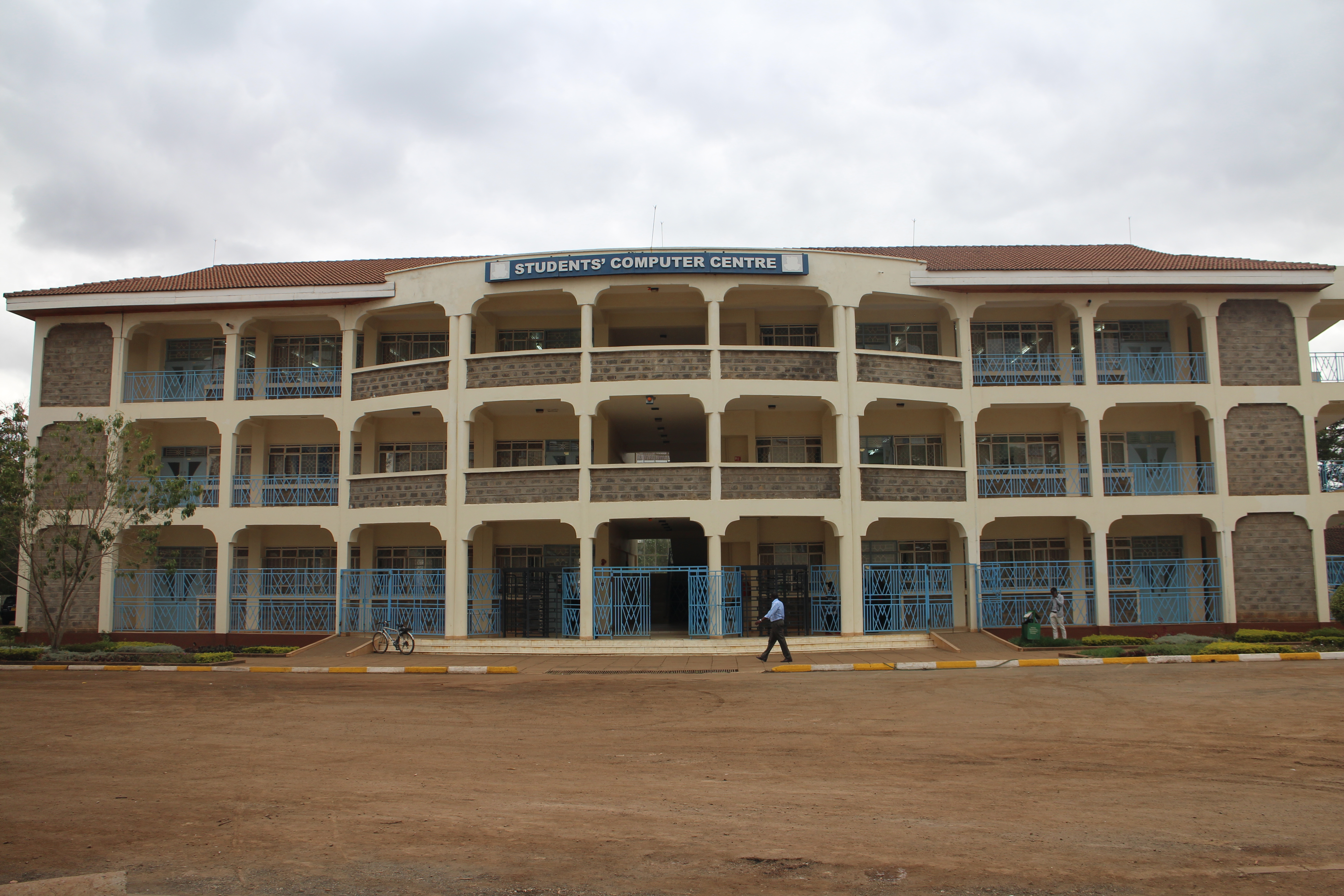 Kenyatta University, the student's computer centre, Nairobi 2016